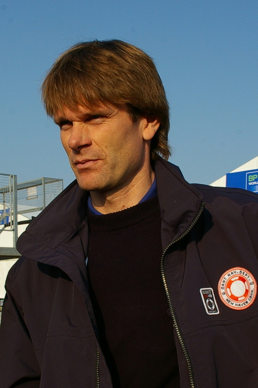 Marcus Grönholm in Rally Japan 2007.